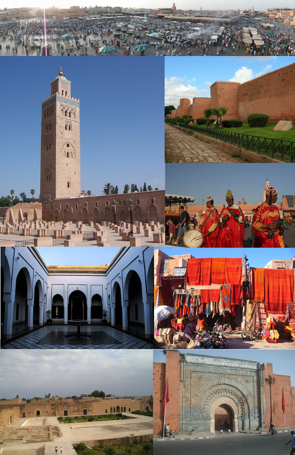 Marrakech Montage. Jemaa el Fnna panorama. Clockwise: 1.Koutoubia Mosque 2. Ramparts of the Medina 3. Entertainers on Jemaa el Fnna 4. Carpets for sale in the souk 5.Bab Agnaou 6.El Badi Palace 7. Bahia Palace.